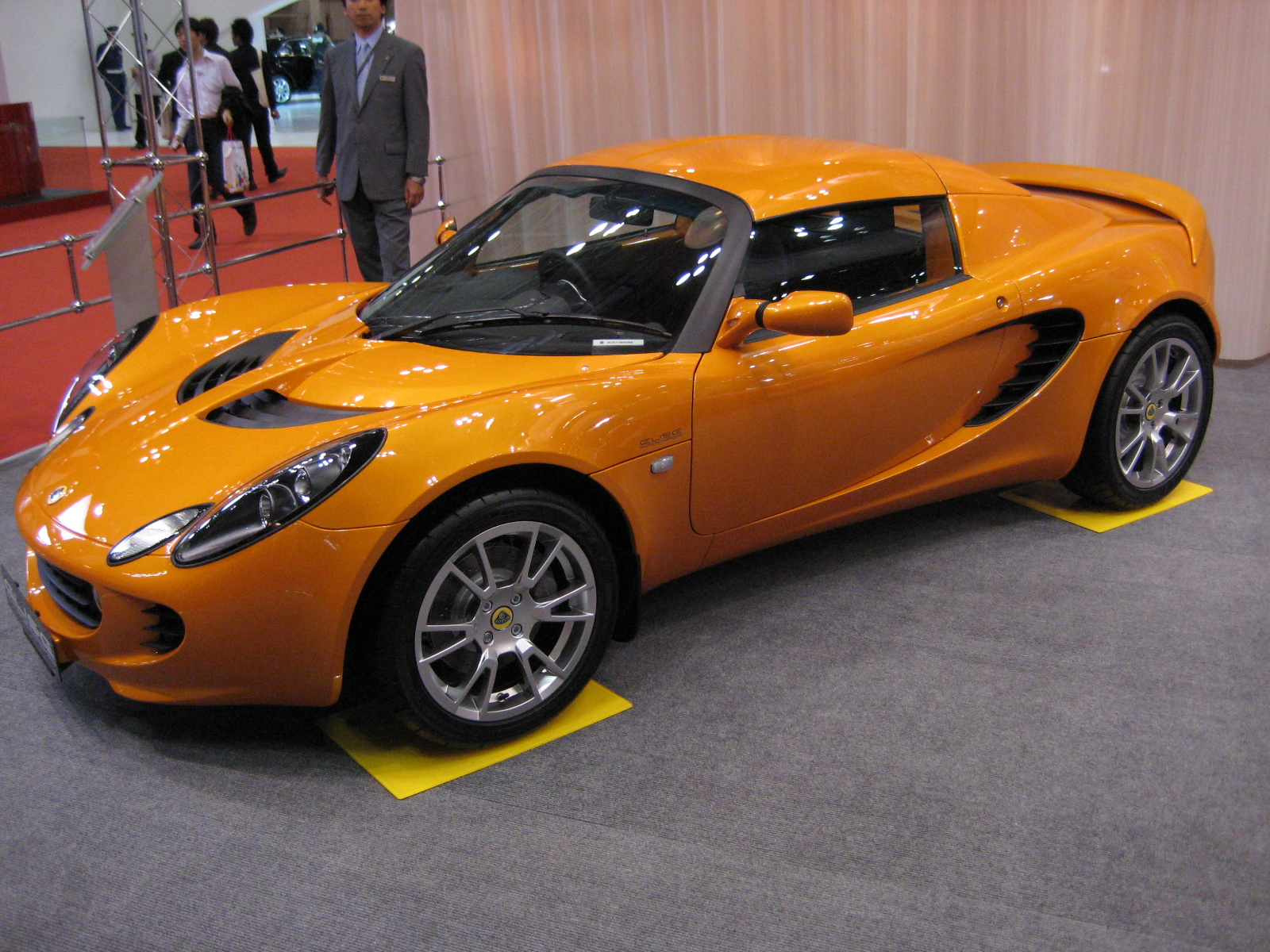 2007 Lotus Elise SC in Tokyo Motor Show 2007 (World Premiere)